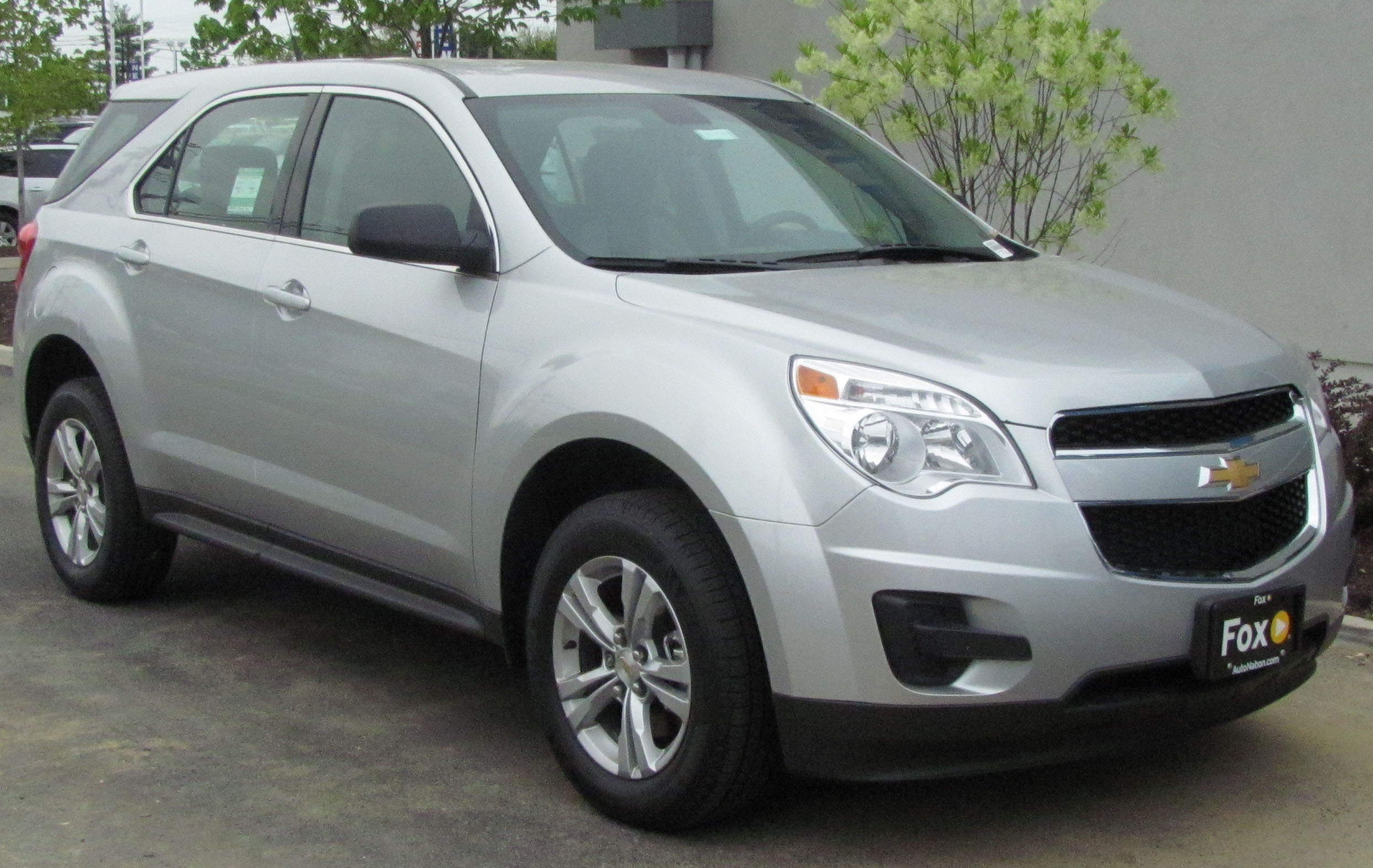 2010 Chevrolet Equinox photographed in Laurel, Maryland, USA.